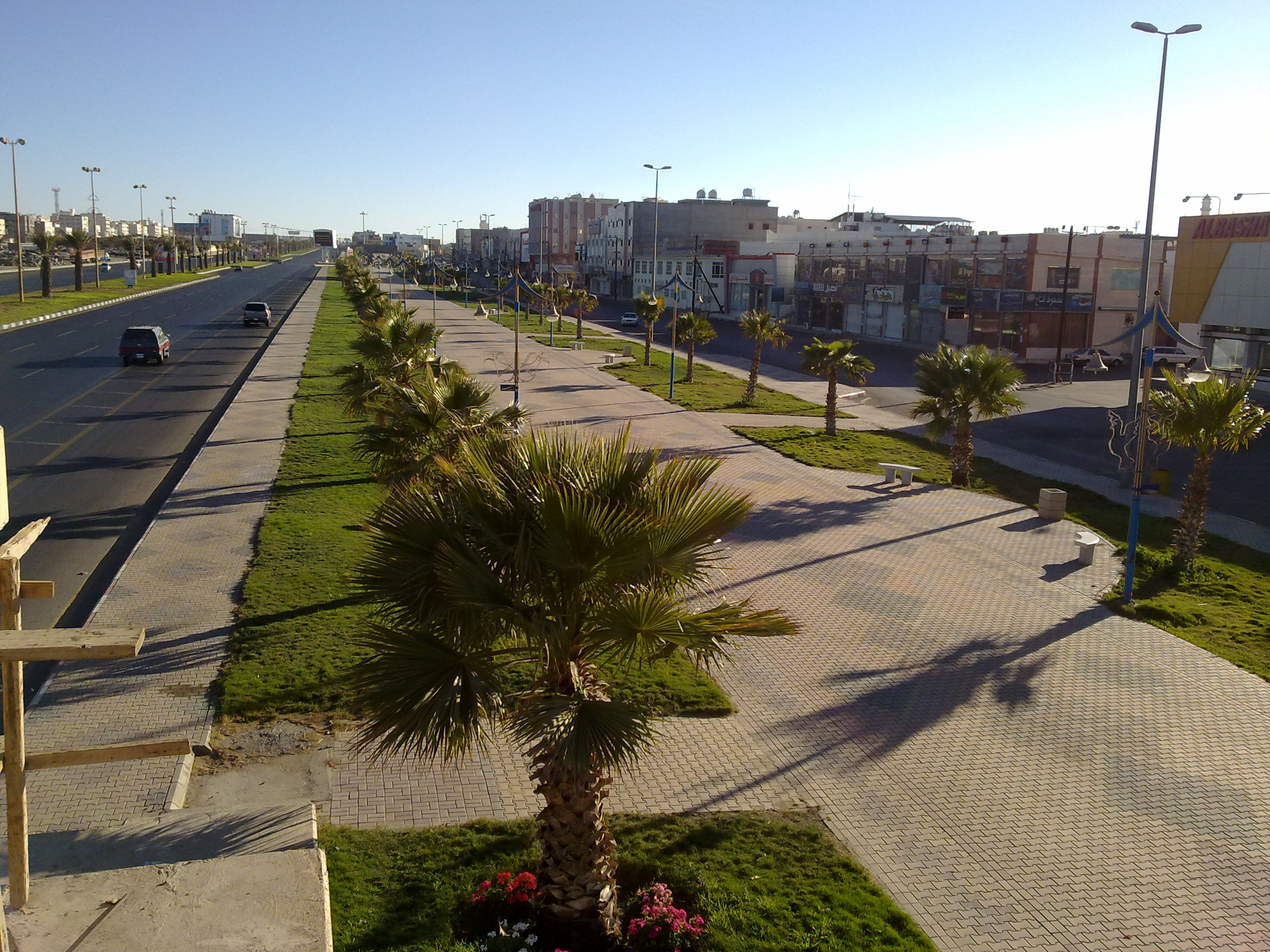 Field for the exercise of walking in the city of Khamis Mushayt